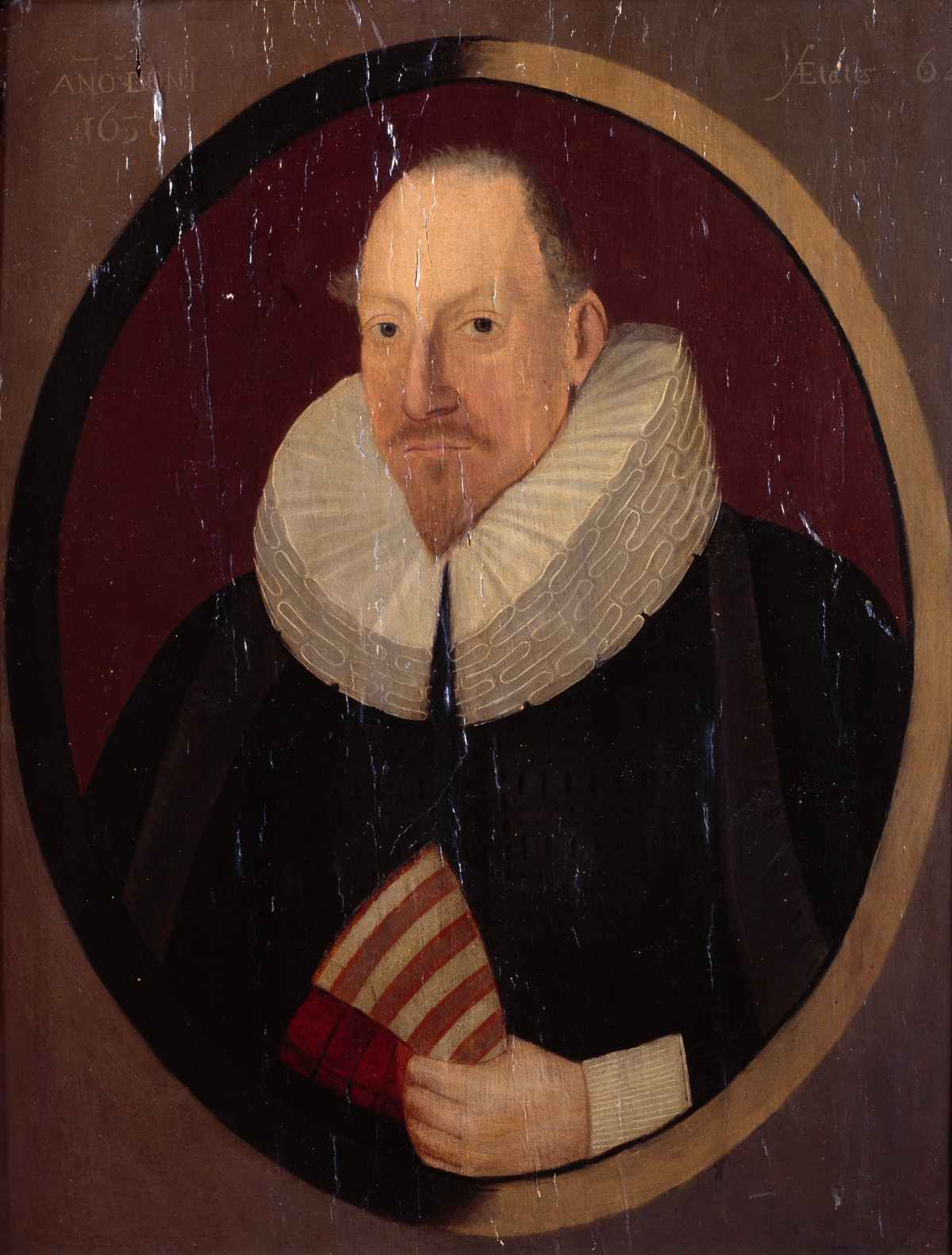 A 1630 77 x 74 cm oil-on-panel portrait painting of Thomas Thelwall by the circle of Gilbert Jackson held at the National Library of Wales